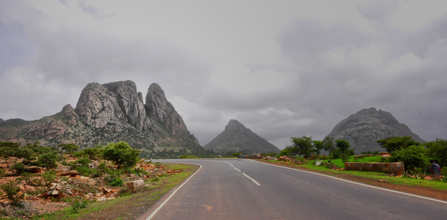 Highway to Hawzen, Ethiopia